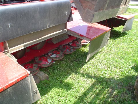 This is a picture of a windrower's cutting blades – which are rotary in design. This is from the Case Windrower that my dad recently purchased. I took this photo in May of 2005.